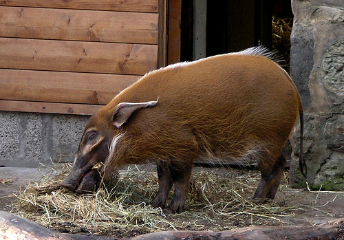 Red River Hog